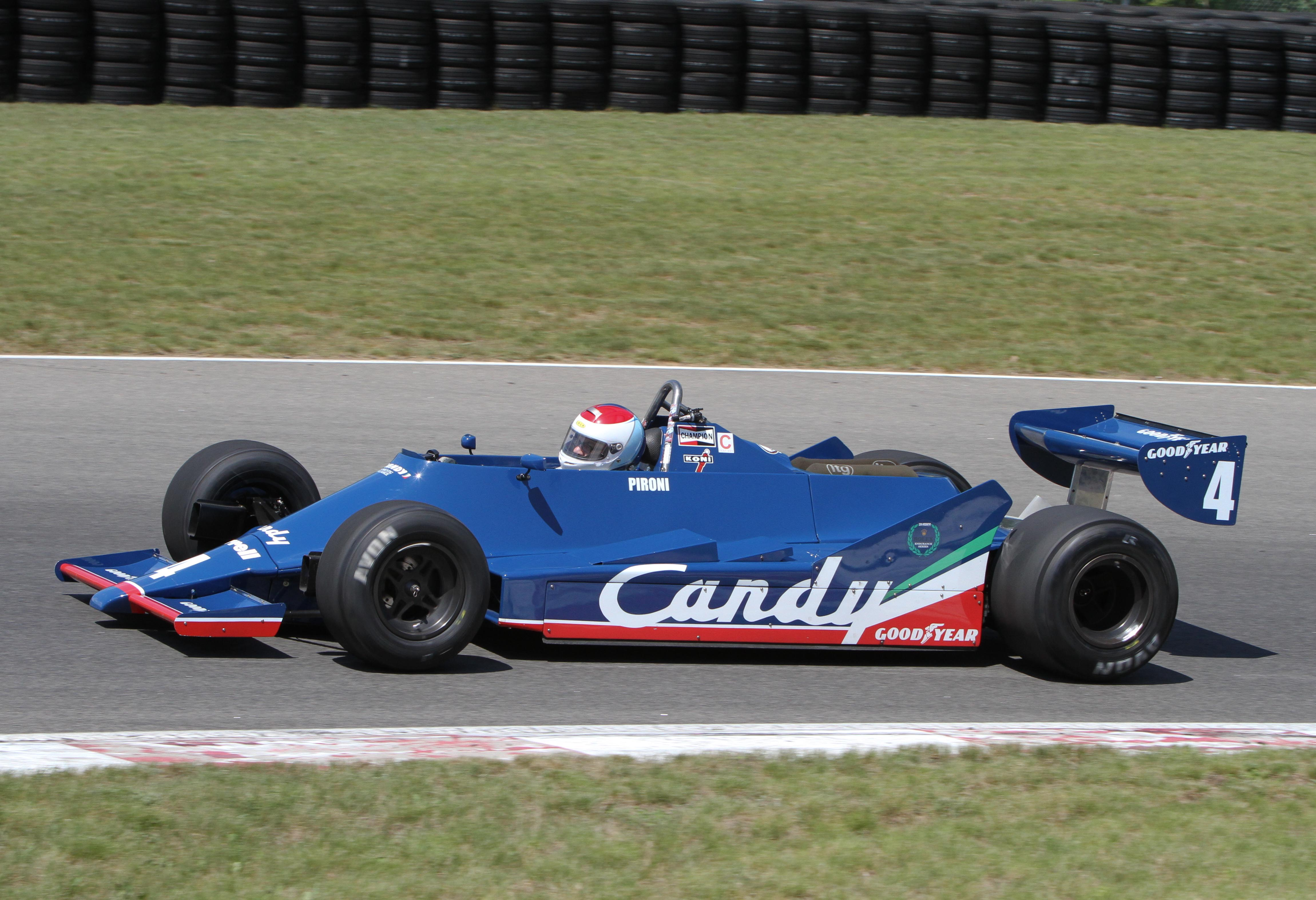 Ex-Didier Pironi Tyrrell 009 Formula One racing car, during the 2010 Legends of Motorsport meeting at Circuit Mont-Tremblant.